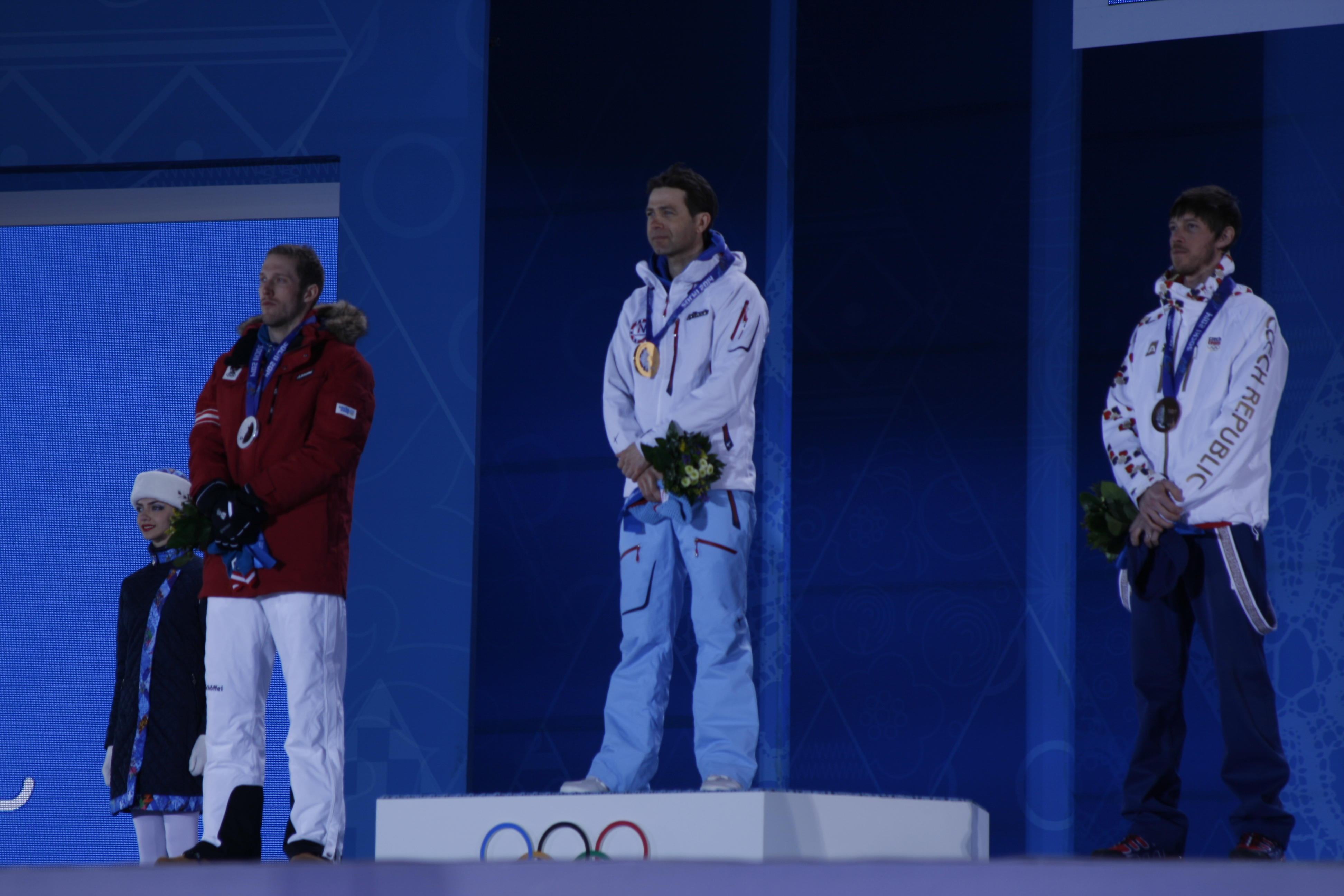 Sochi 2014 Olympic Winter Games men's biathlon sprint medalists.